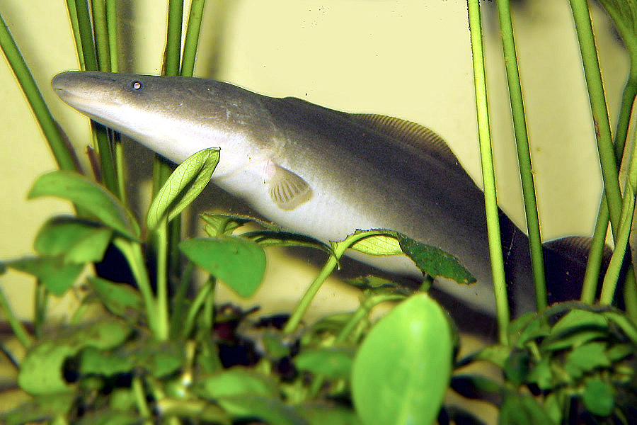 Gymnarchus niloticus